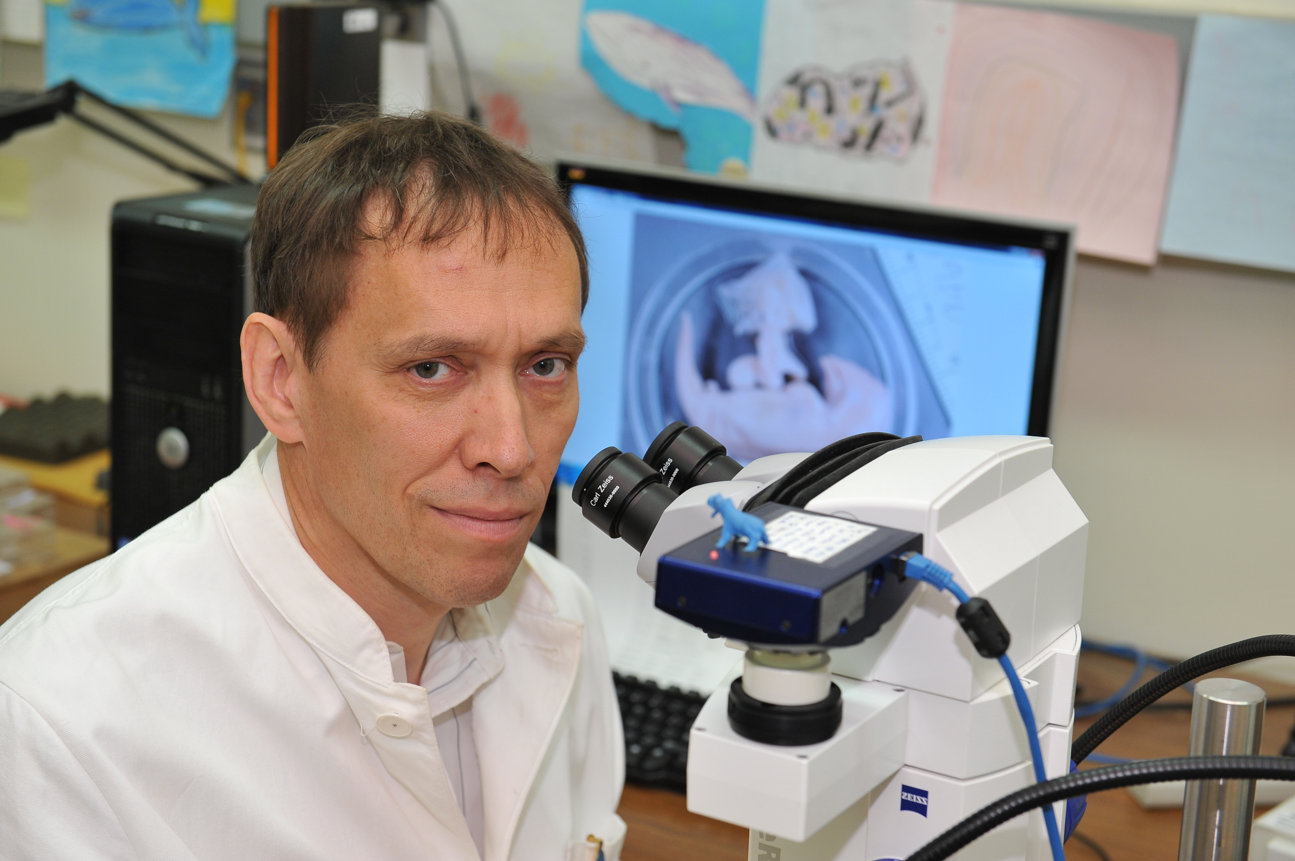 Hans Thewissen 8-6-14 with Microscope for infobox